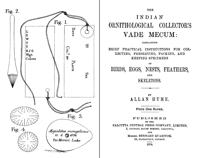 Cover of book by A.O.Hume